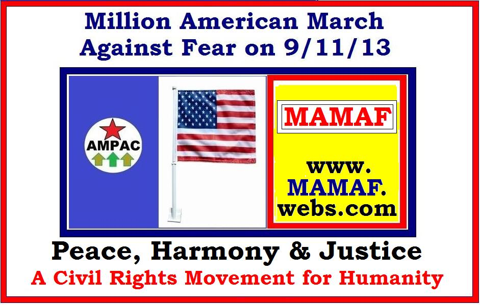 This image was taken from here